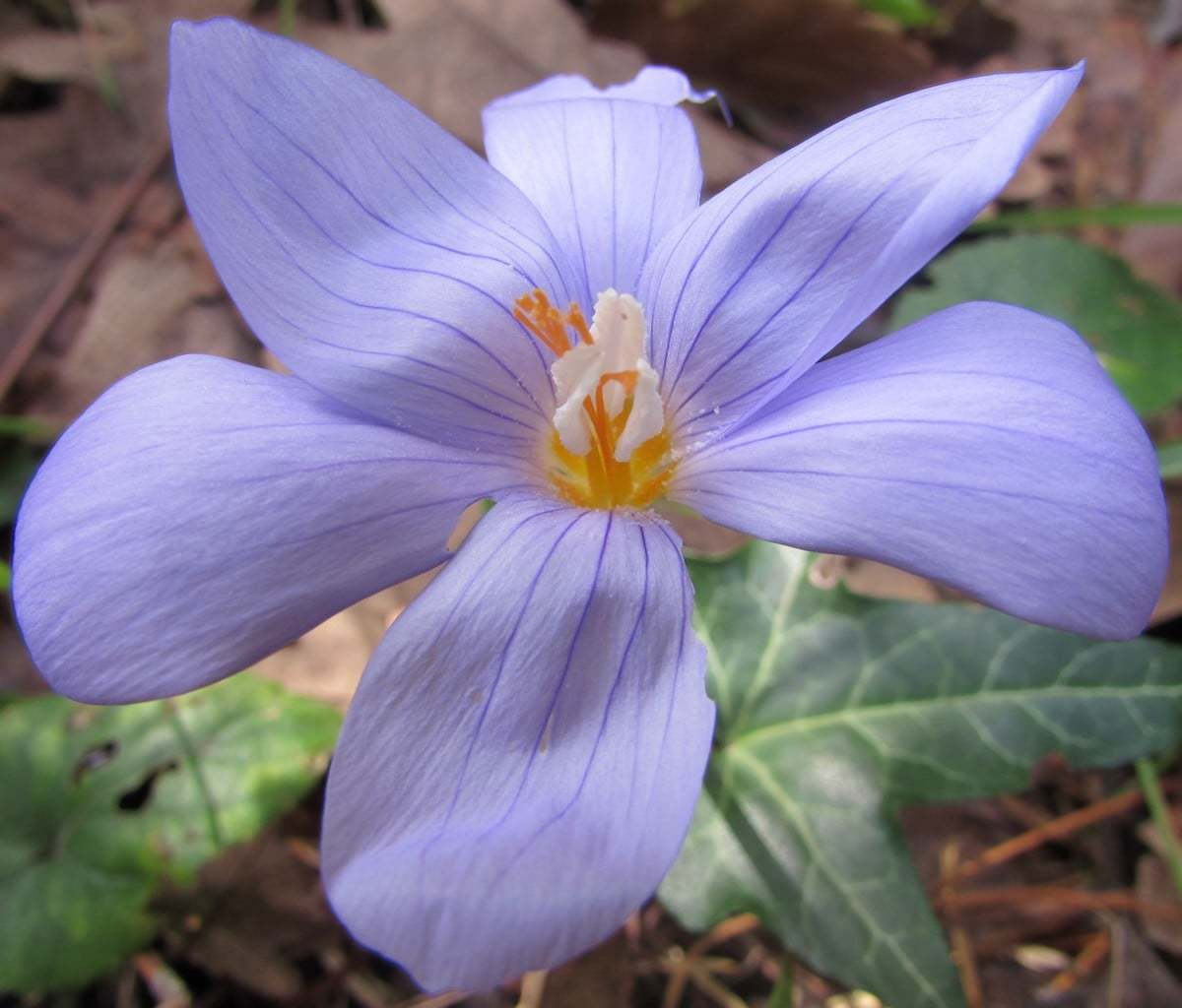 Crocus pulchellus flower